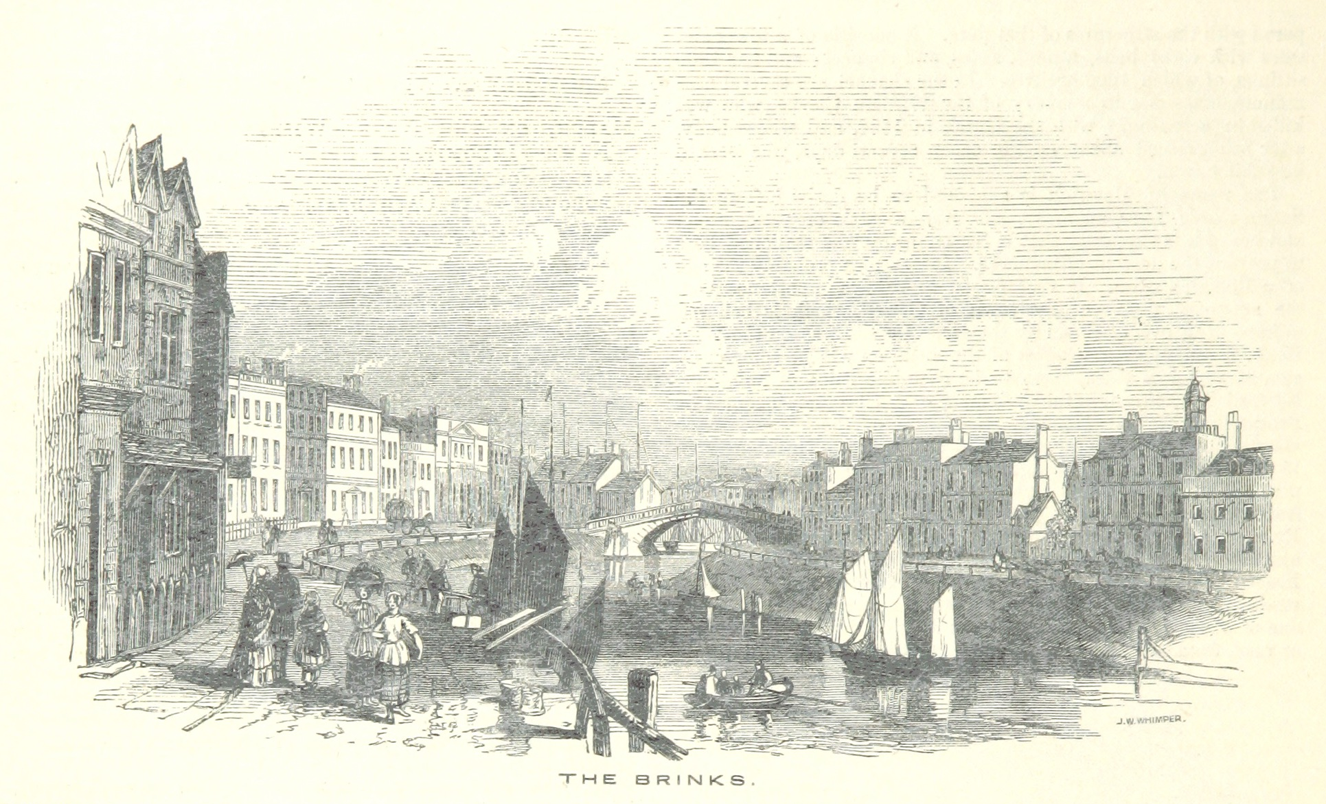 The North and South Brink, along the River Nene in Wisbech in Cambridgeshire. "The river Nene, on both sides of which the town is situated, is here crossed by a bridge, consisting of one arch, of an elliptical form,and about seventy-two feet in span. From this bridge a very good view of the town is obtained, presenting a strange appearance to the visitor. Vessels of 100 tons can come up to the quay, the navigation of the river having been very much improved by means of a straight cut from Peterborough." The bridge was replaced by an iron structure in 1855-57, and in turn by a concrete one in 1931.